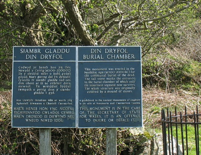 Information boards at the entrance gate to the Din Dryfol Burial Chamber Din Dryfol is a much damaged complex Neolithic chambered tomb. Excavations have indicated at least two, and perhaps three, phases in the development of the tomb. The first stage in construction was that of a rectangular chamber at the west end of the site. Later a middle chamber was added. This has largely disappeared with the exception of a fallen sidestone. The two chambers were originally covered by elongated cairns. Finally, the tomb was extended eastwards, but nothing remains of this stage except for the dramatic 3m high portal stones.